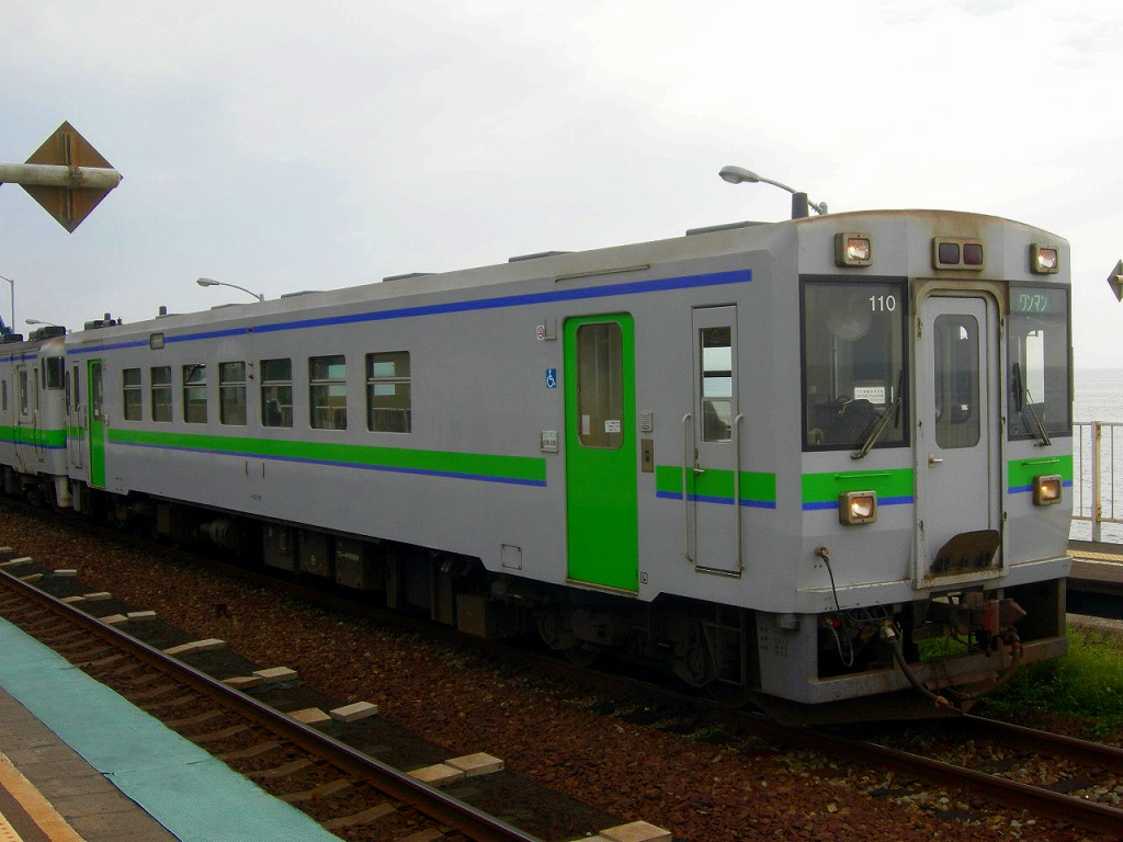 JR Hokkaido KiHa 150-100 series DMU car KiHa 150-110 at Kita-Funaoka Station on the Muroran Main Line in Hokkaido, Japan